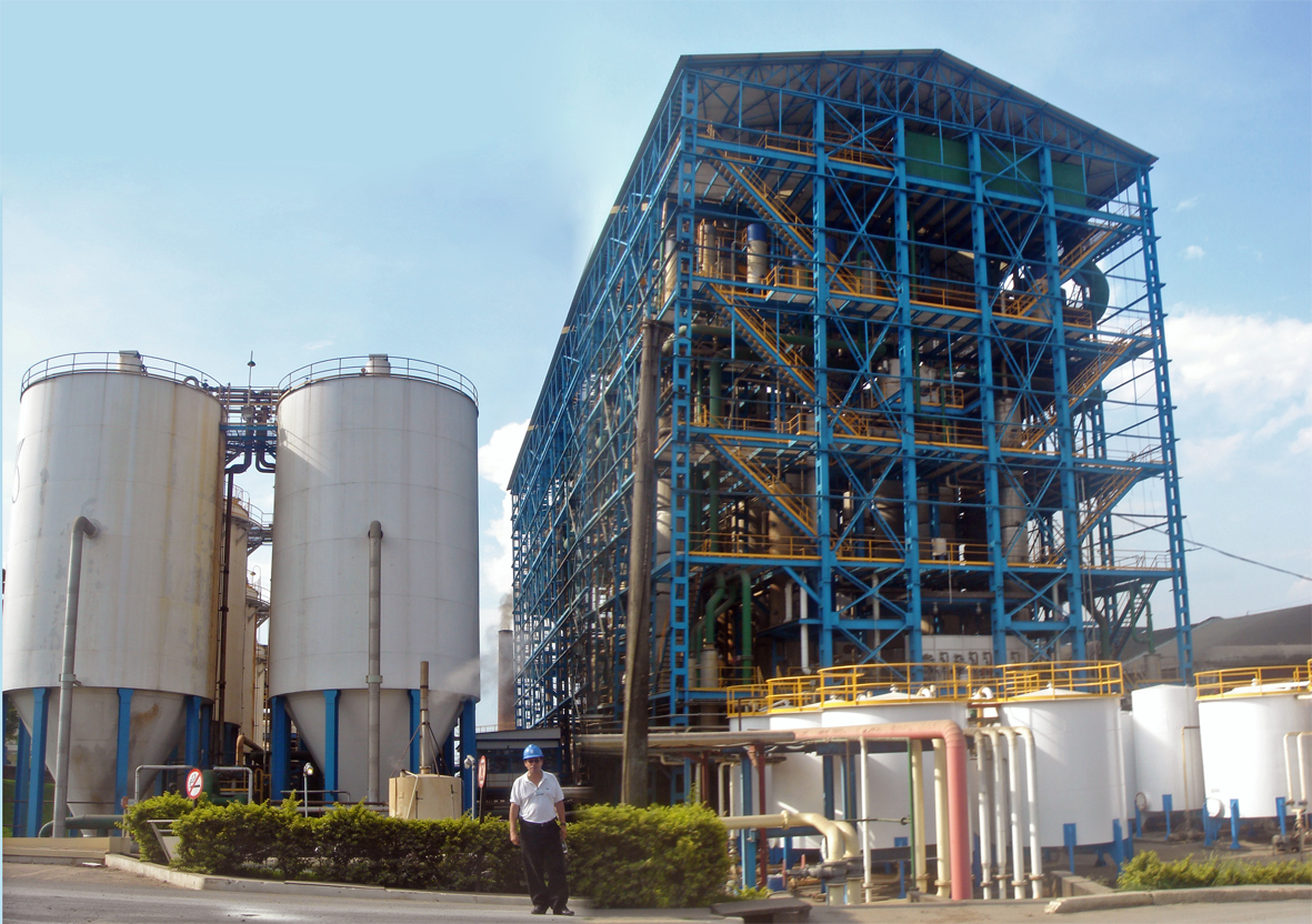 Costa Pinto sugar/ethanol production plant. Shown the ethanol distillery facility. Location, Piracicaba, Sao Paulo, Brazil. Production uses sugarcane as feedstock.